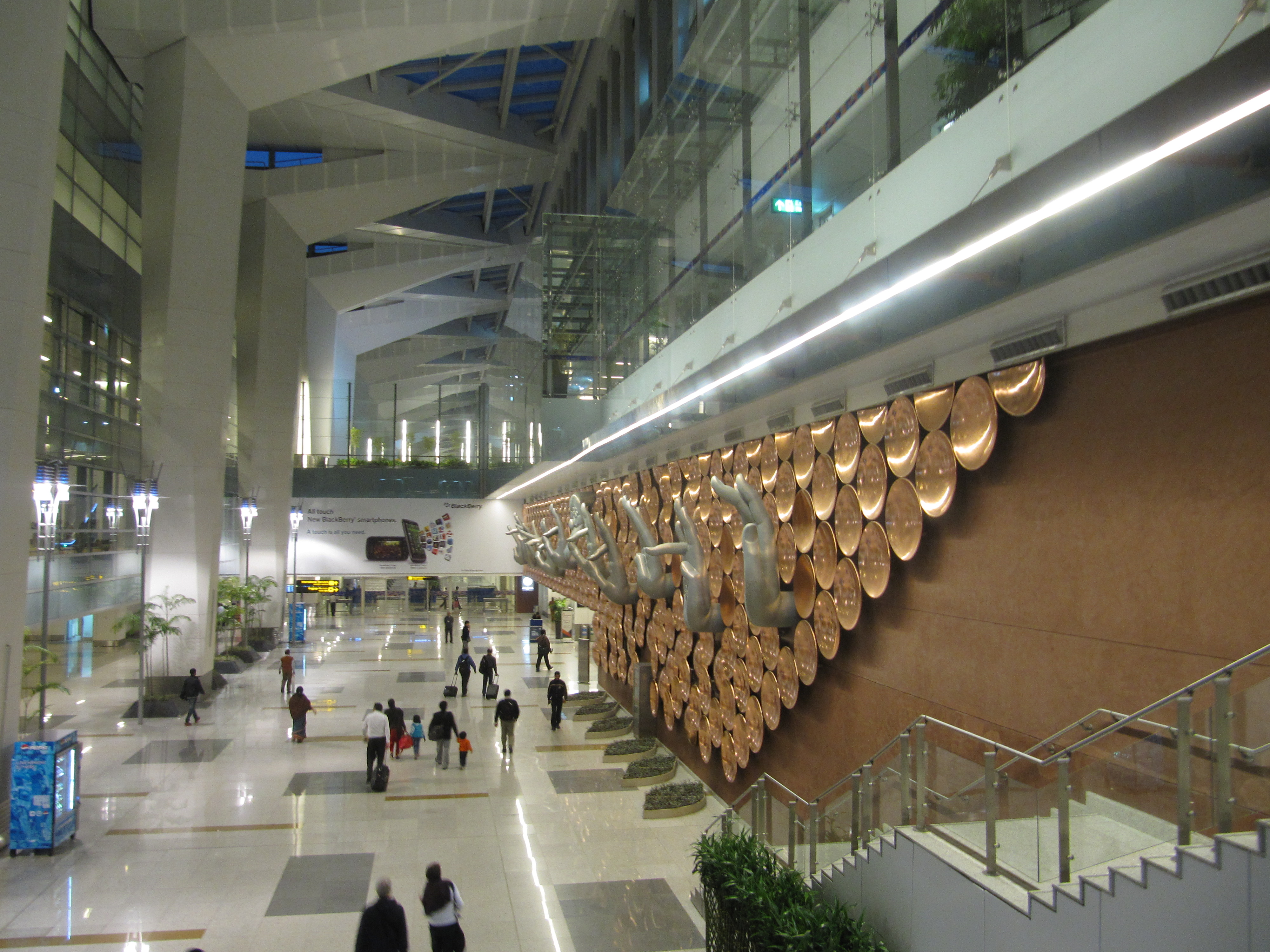 Indira Gandhi International Airport Terminal 3